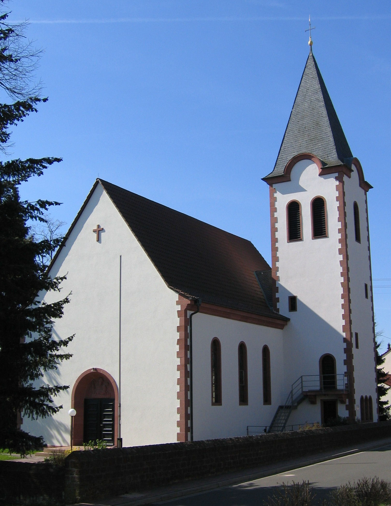 view of Mehlingen, Germany